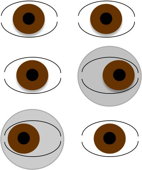 Heterophoria, Exophoria, Latent Deviation